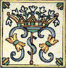 Emblem of the Servite order, from a 15th cent. majolica